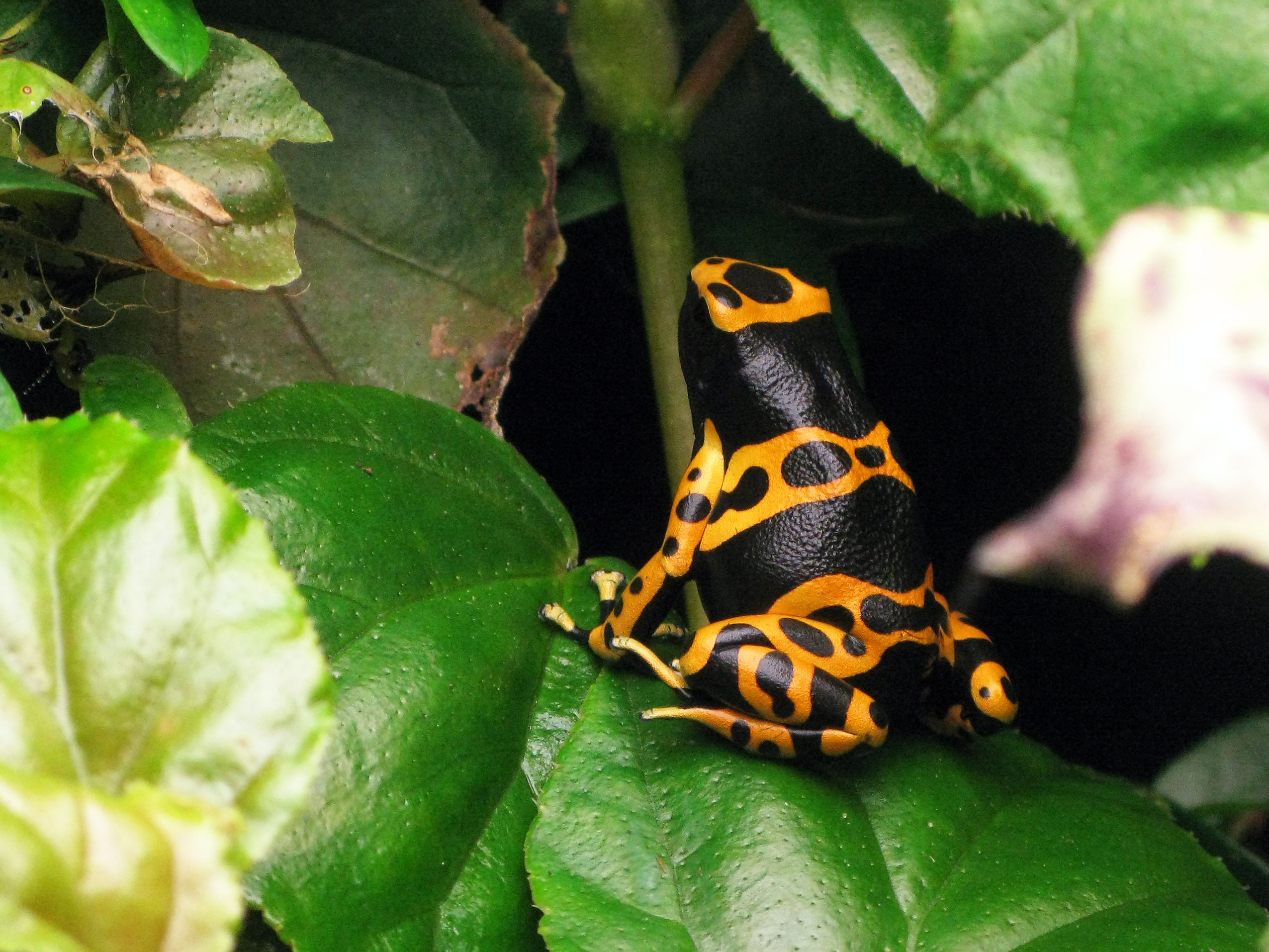 Dendrobates leucomelas female